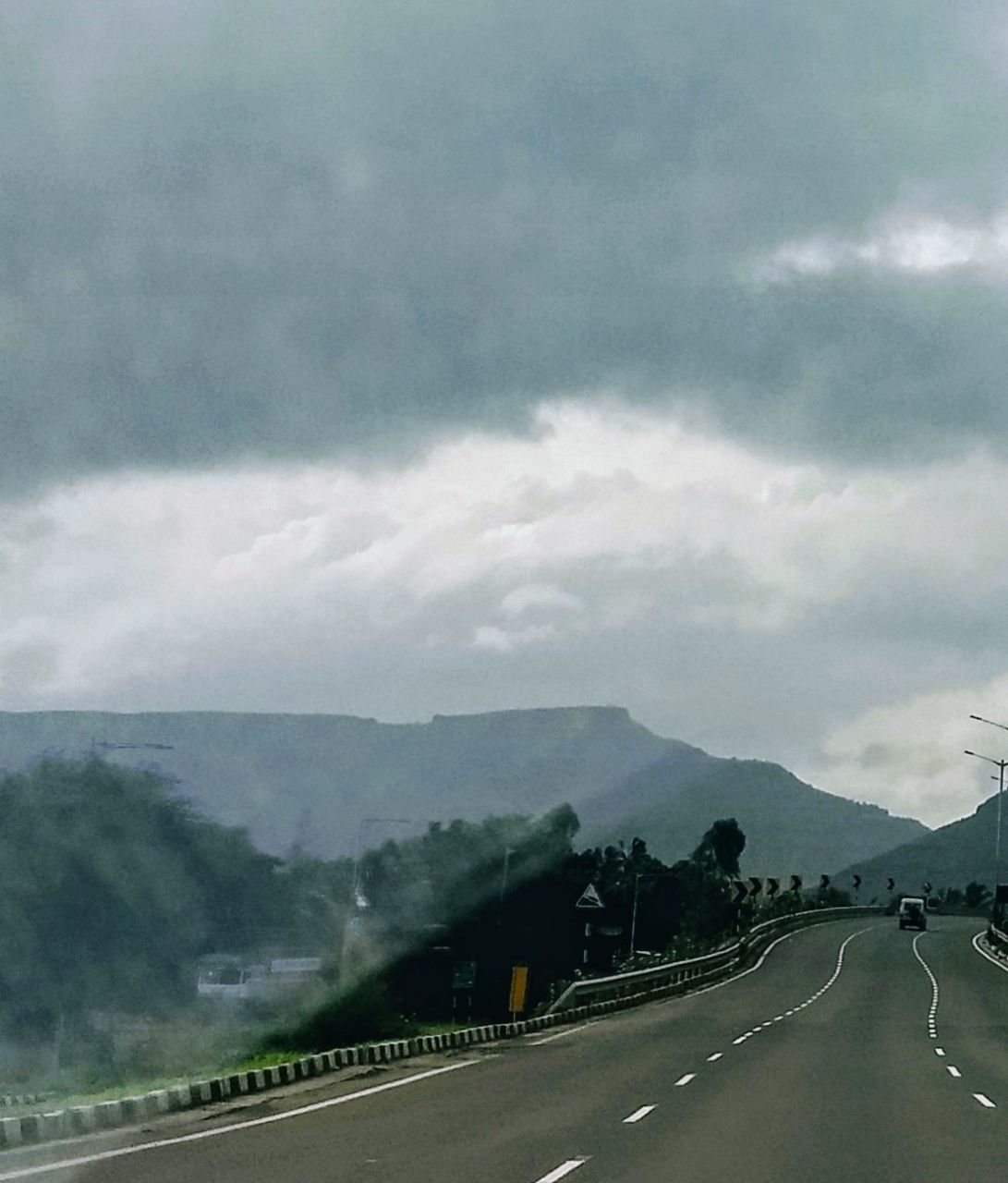 Vairatgad fort as seen from Pune-Satara Highway on National Highway 48